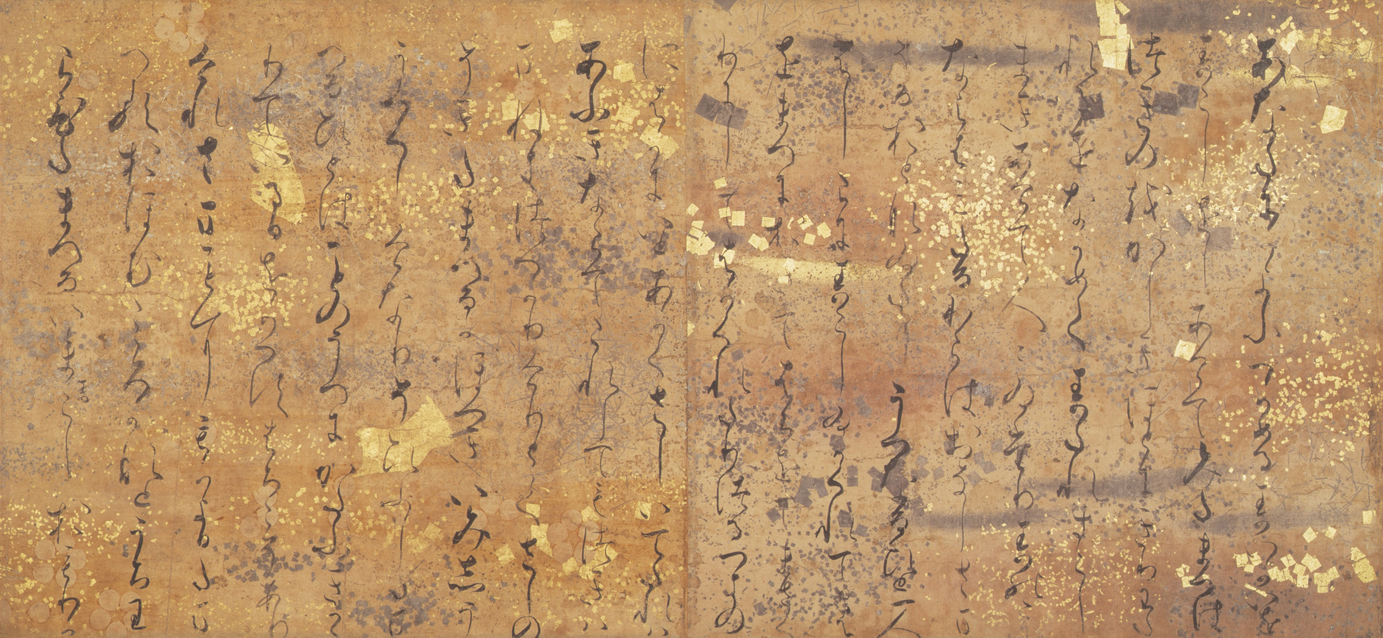 A Calligraphy of the Chapter "HASHIHIME "(mistletoe) of Illustrated handscroll of Tale of Genji (written by MURASAKI SHIKIBU(11th cent.). Ink on Ornamented Paper(Colour Gold Foil, etc). The handscroll was made in about ACE1130 and stored in TOKUGAWA Museum, Japan. The handscroll were separated to each sections and mounted to frame for conservation.